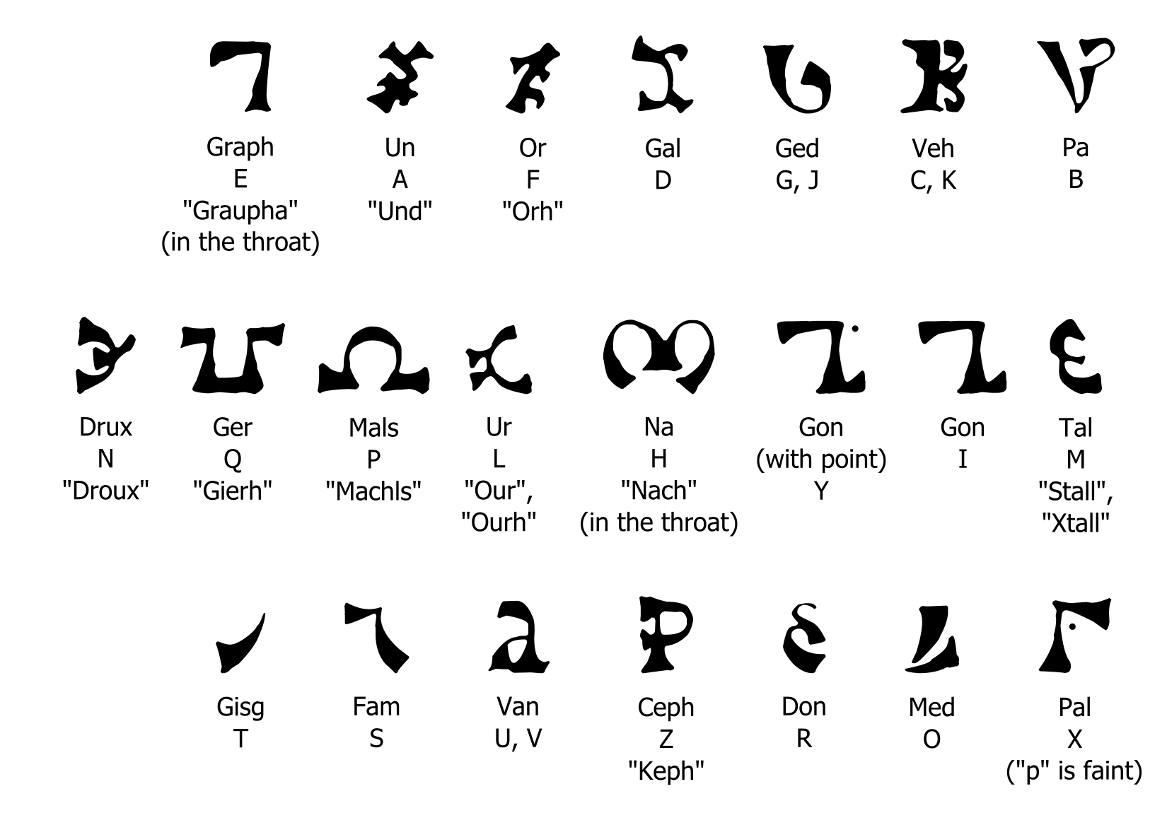 A chart of the Enochian alphabet with letter forms, letter names, English equivalents, and pronunciation of the letter name (if different than English). The letters are read from right to left, like the language, and as written in John Dee's diary in MS. Sloane 3188, page 103v-104r, from This .png version is for viewing without the Enochian alphabet font. The editable version that requires the font is File:Enochian alphabet edit.svg. Information sources are and The Enochian alphabet font is from This font is based on the form of the letters in MS. Sloane 3189, page 57r, from in turn being inspiration of Bassa alphabet.